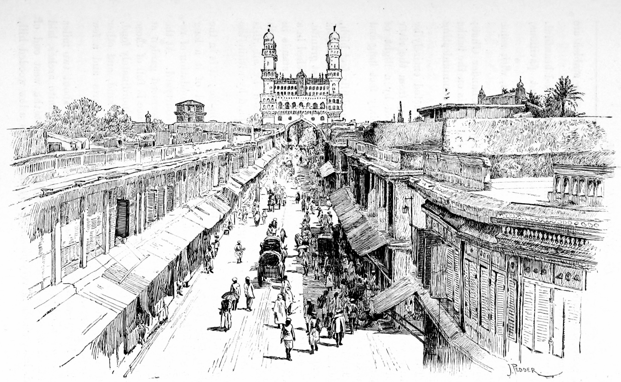 Image taken from: Title: "Picturesque India. A handbook for European travellers, etc. [With maps.]" Author: CAINE, William Sproston. Shelfmark: "British Library HMNTS 010057.ee.7.", "British Library OC ORW.1986.a.2996" Page: 521 Place of Publishing: London Date of Publishing: 1890 Publisher: G. Routledge & Sons Issuance: monographic Identifier: 000567709 Note: The colours, contrast and appearance of these illustrations are unlikely to be true to life. They are derived from scanned images that have been enhanced for machine interpretation and have been altered from their originals. If you wish to purchase a high quality copy of the page that this image is drawn from, please order it here. Please note that you will need to enter details from the above list - such as the shelfmark, the page, the book's volume and so on - when filling out your order. Explore: Find this item in the British Library catalogue, 'Explore'. Open the page in the British Library's itemViewer (page: 521) Download the PDF for this book Click here to see all the illustrations in this book and click here to browse other illustrations published in books in the same year. Please click on the tags shown on the right-hand side for other ways to browse the illustrations.